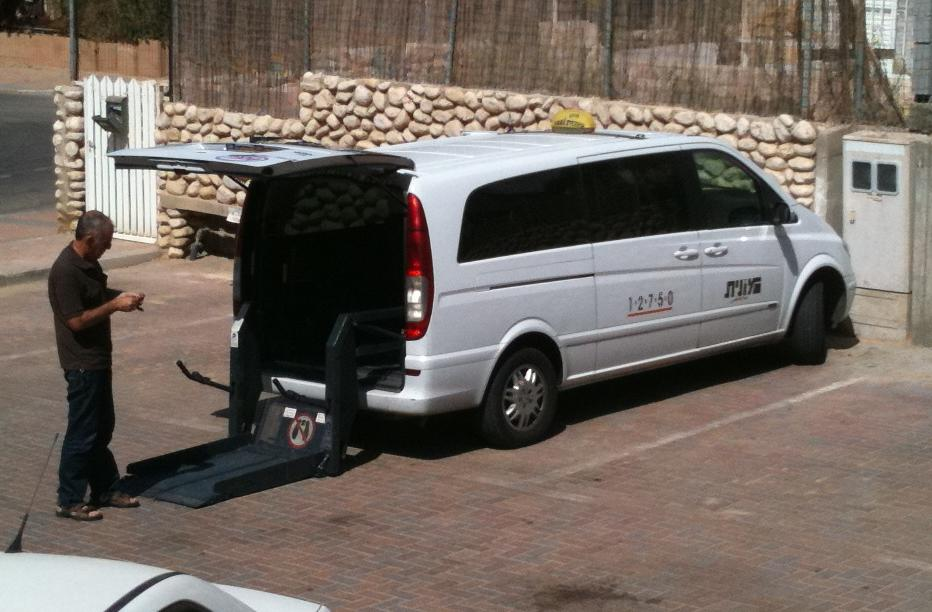 A taxi cab in Beer-Sheva, Israel that is accessible to motorized-wheelchair users.